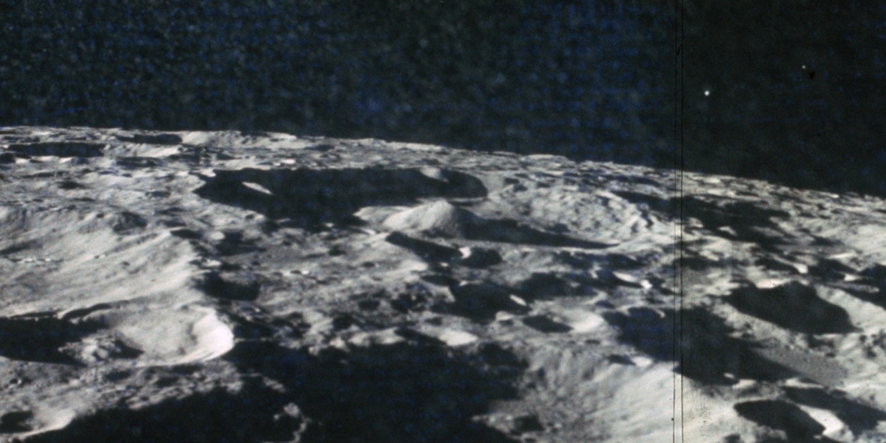 Oblique view of Icarus, on the far side of the moon, facing north. Taken from an altitude of approximately 114 km on Revolution 15 of the Apollo 17 mission. Sun angle is about 6 deg.